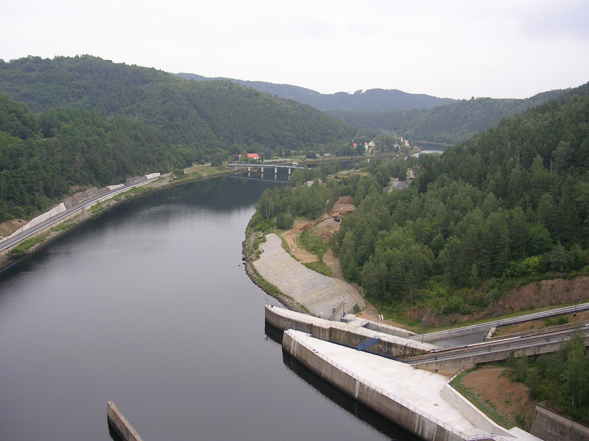 Orlík Dam, the Czech Republic.